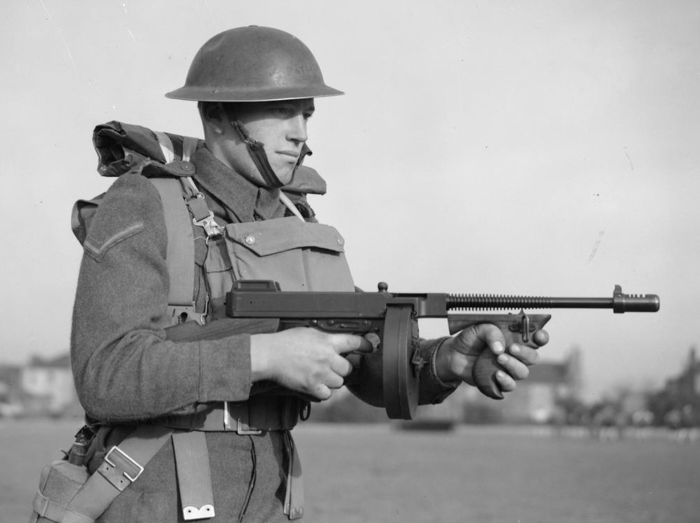 THE BRITISH ARMY IN THE UNITED KINGDOM 1939-45. A lance-corporal of the East Surrey Regiment poses with a 'Tommy gun', Chatham in Kent.